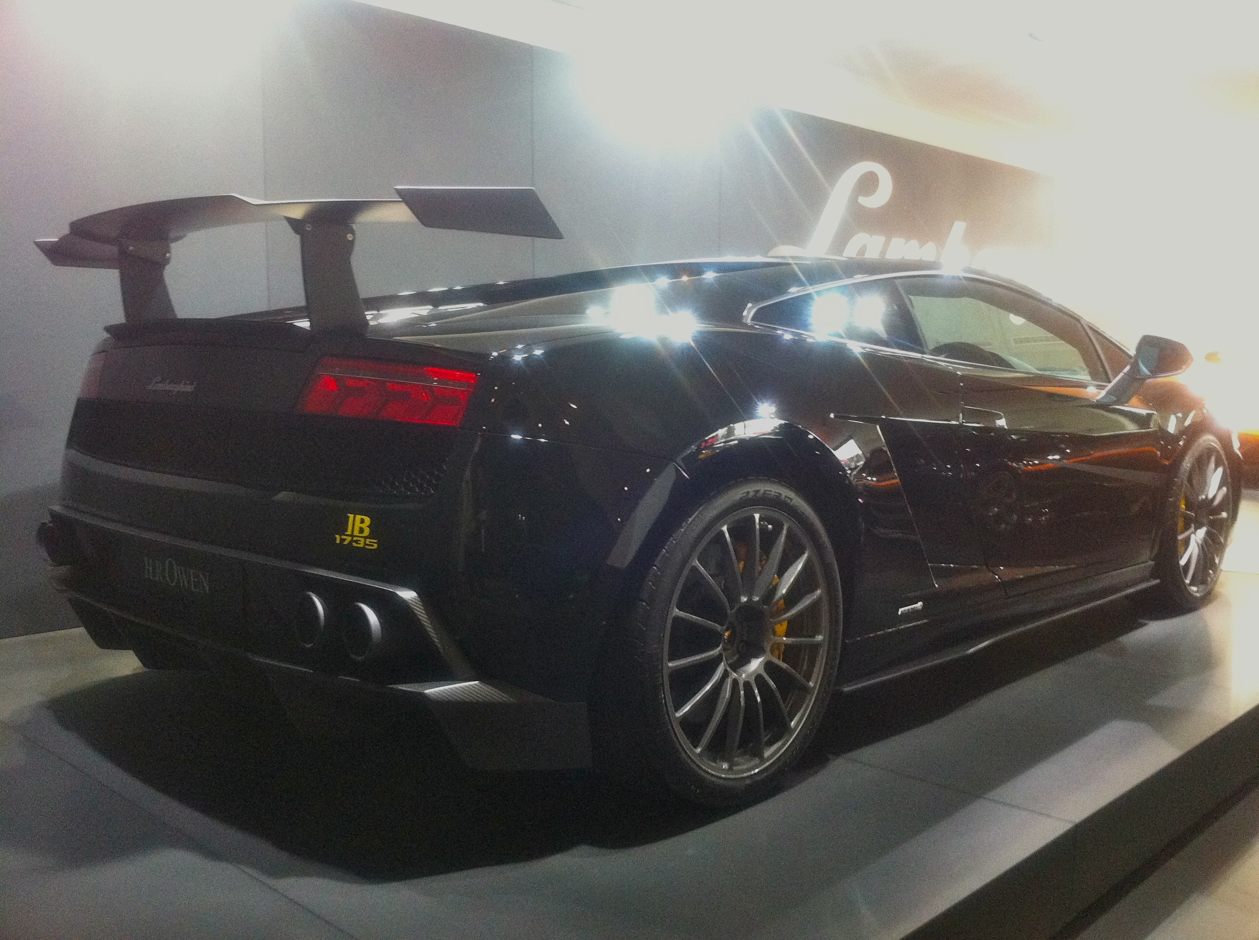 Gallardo LP 570-4 Blancpain special edition. 12 Worldwide 225 000£